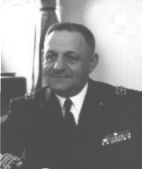 Admiral Arturo Riccardi